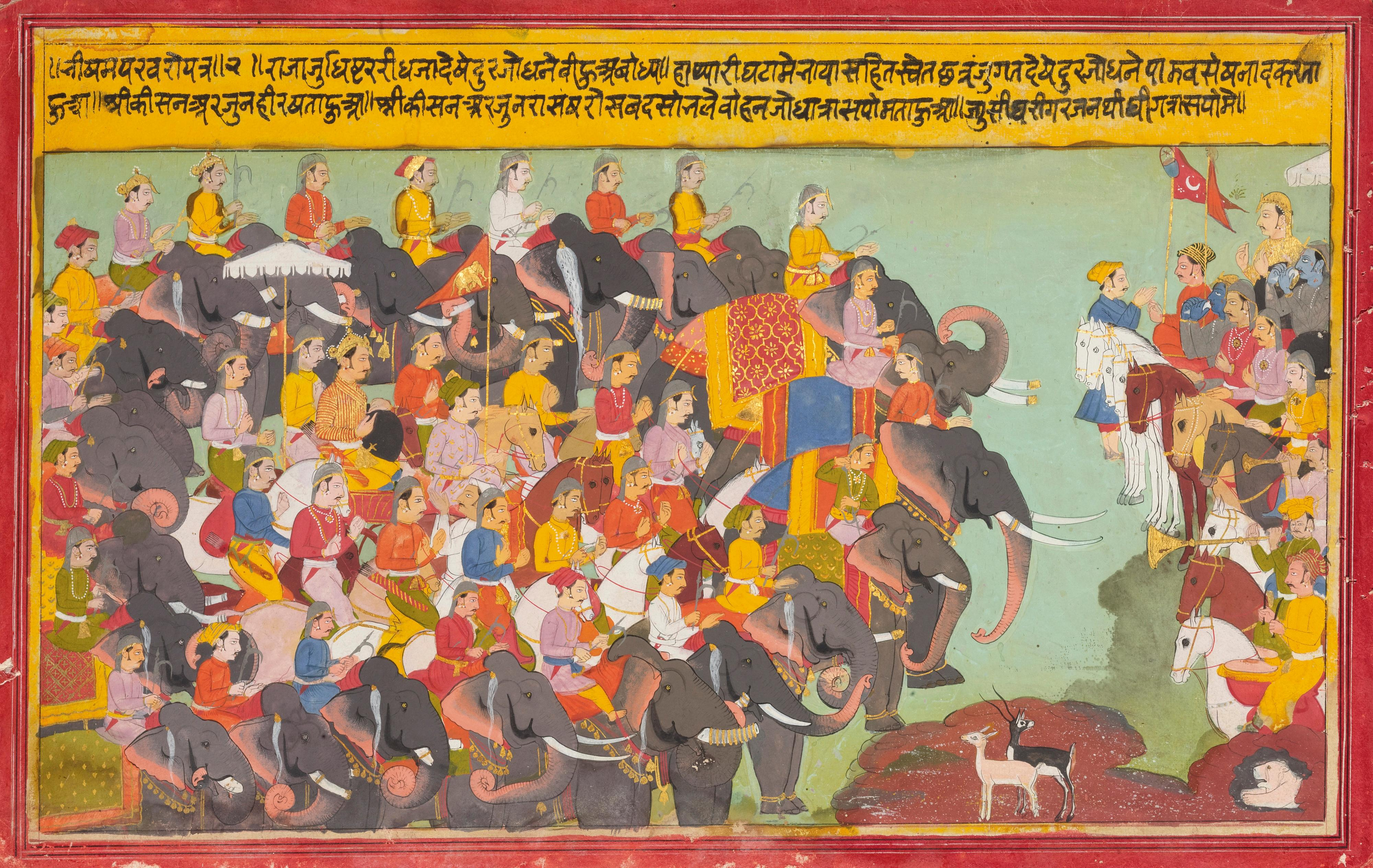 An Illustration to the Mahabharata: The Pandava and Kaurava armies face each other In this illustration from the Bhishma Parva of the epic, the Pandava and Kaurava armies are shown arrayed before each other on the battlefield of Kurukshetra. Duryodhana, leader of the Kaurava army, is seen at the center of his forces on the left, beneath a white parasol. Opposite are his cousins the Pandavas, led by Krishna and Arjuna who blow their conches marking the start of hostilities in this cataclysmic battle. Opaque watercolor heightened with gold on paper image 9 3/4 by 15 3/4 in. (24.8 by 40 cm) folio 10 5/8 by 16 1/2 in. (27 by 42 cm) circa 1700 India, Mewar